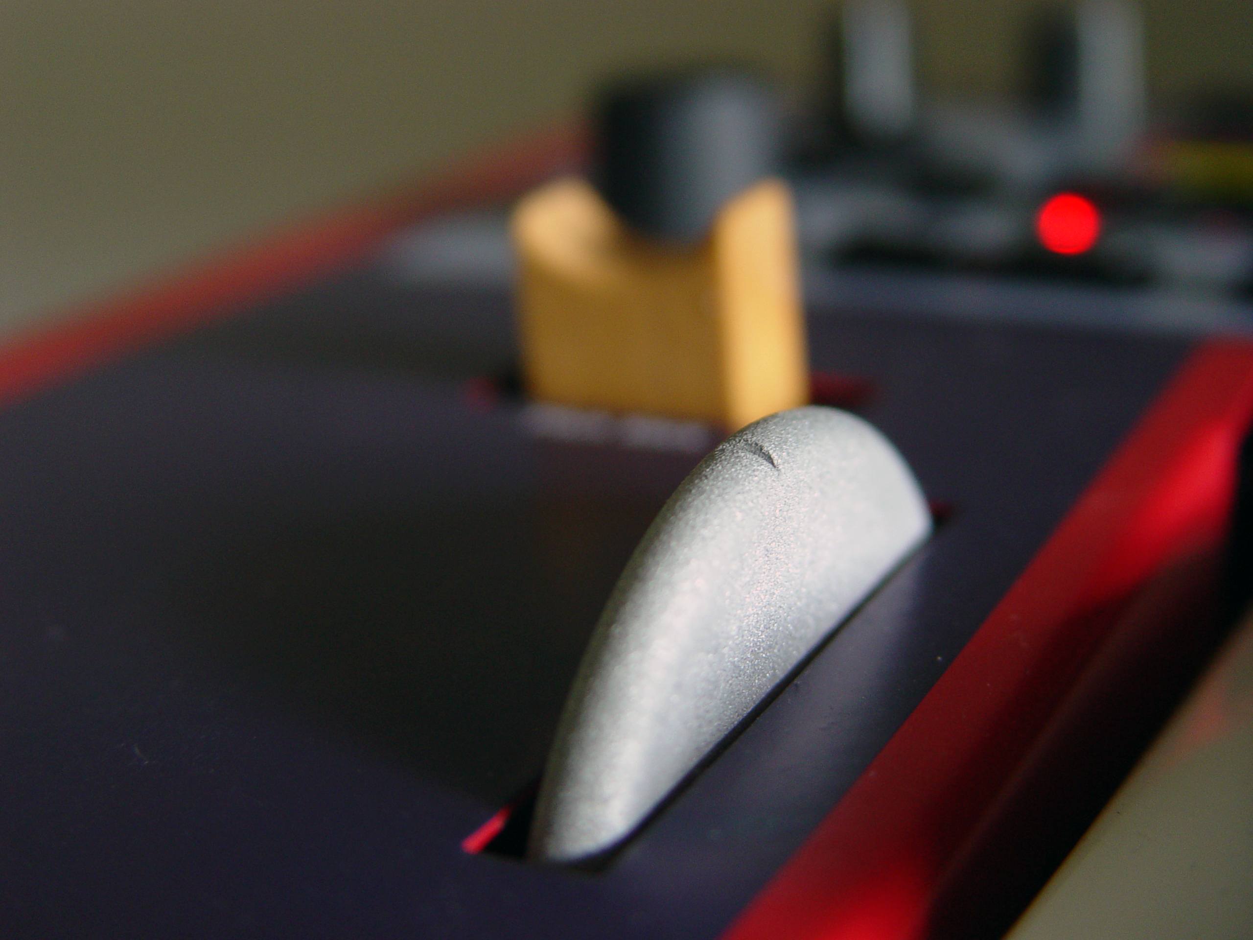 Nord Modular G2 modwheel (pitch stick in background). love that stone texture.